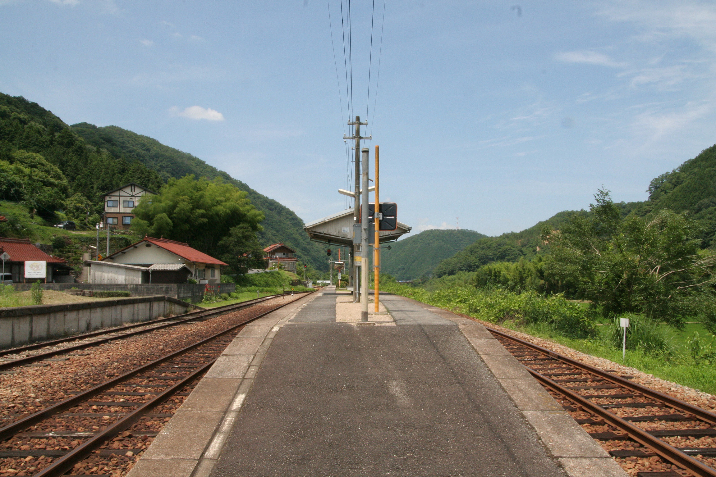 West Japan Railway Sanko Line shikijiki Station enclosure